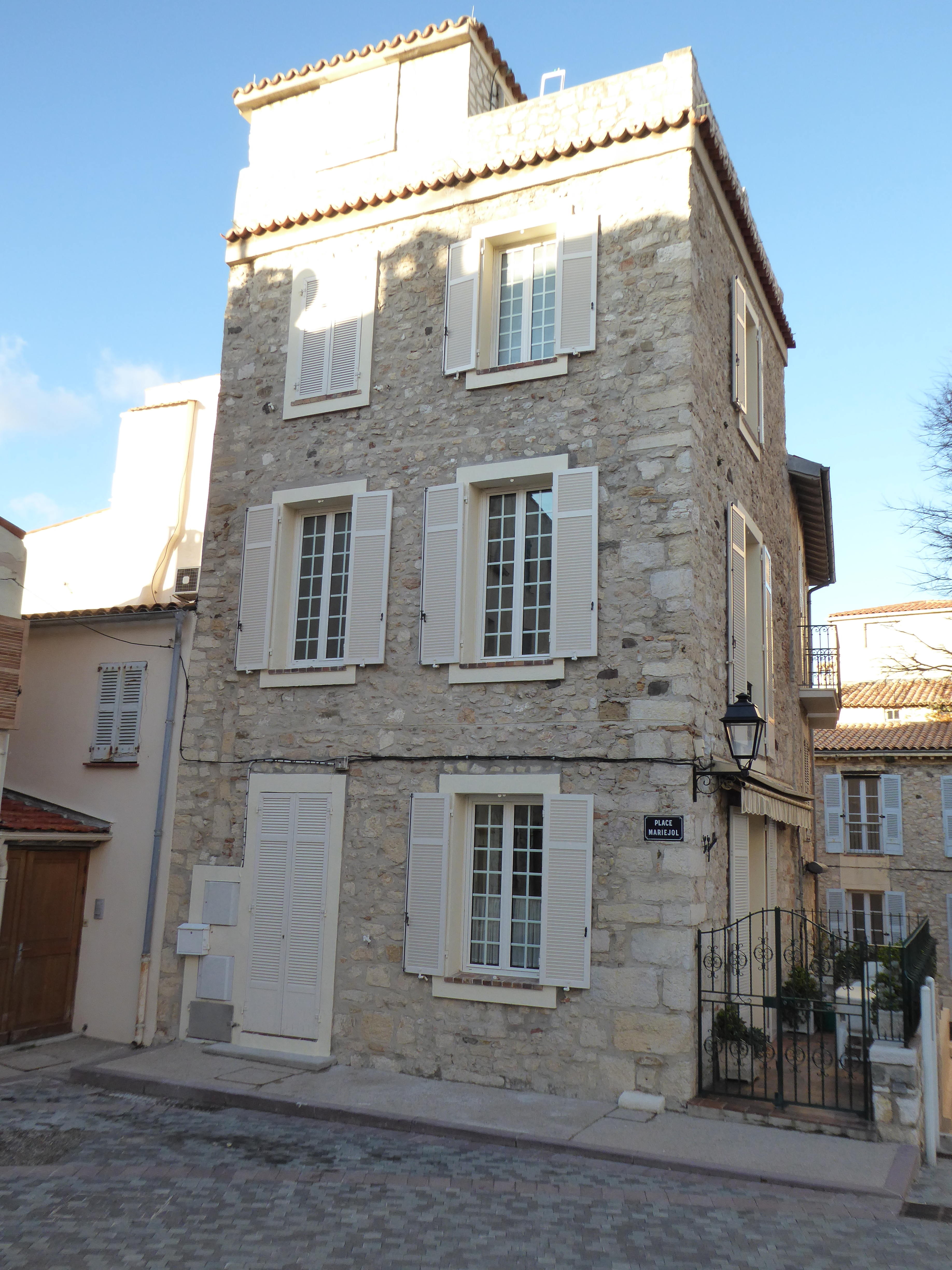 Place Mariejol (Antibes)